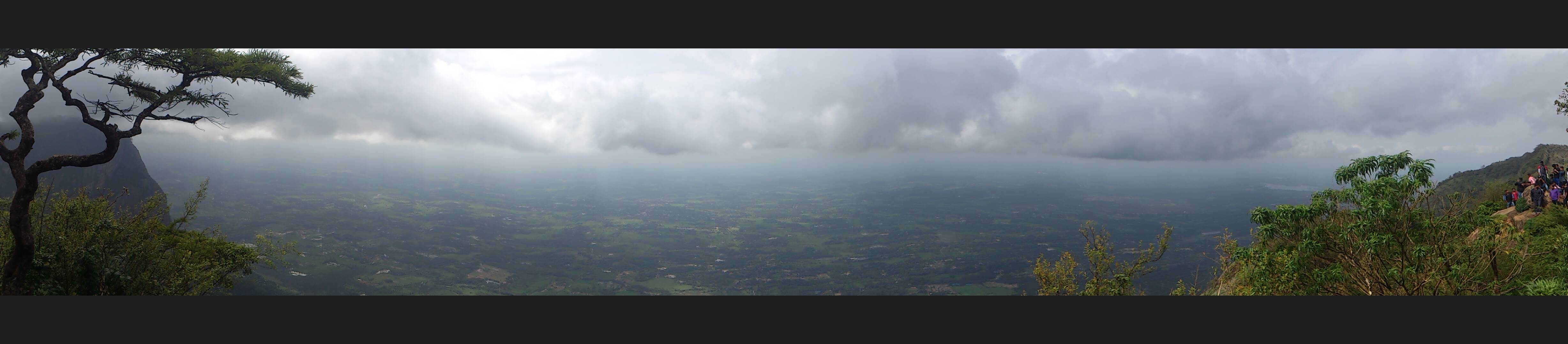 Nelliampathi view in Panorama